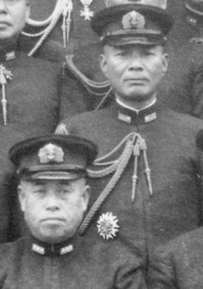 Isoroku Yamamoto and Matome Ugaki